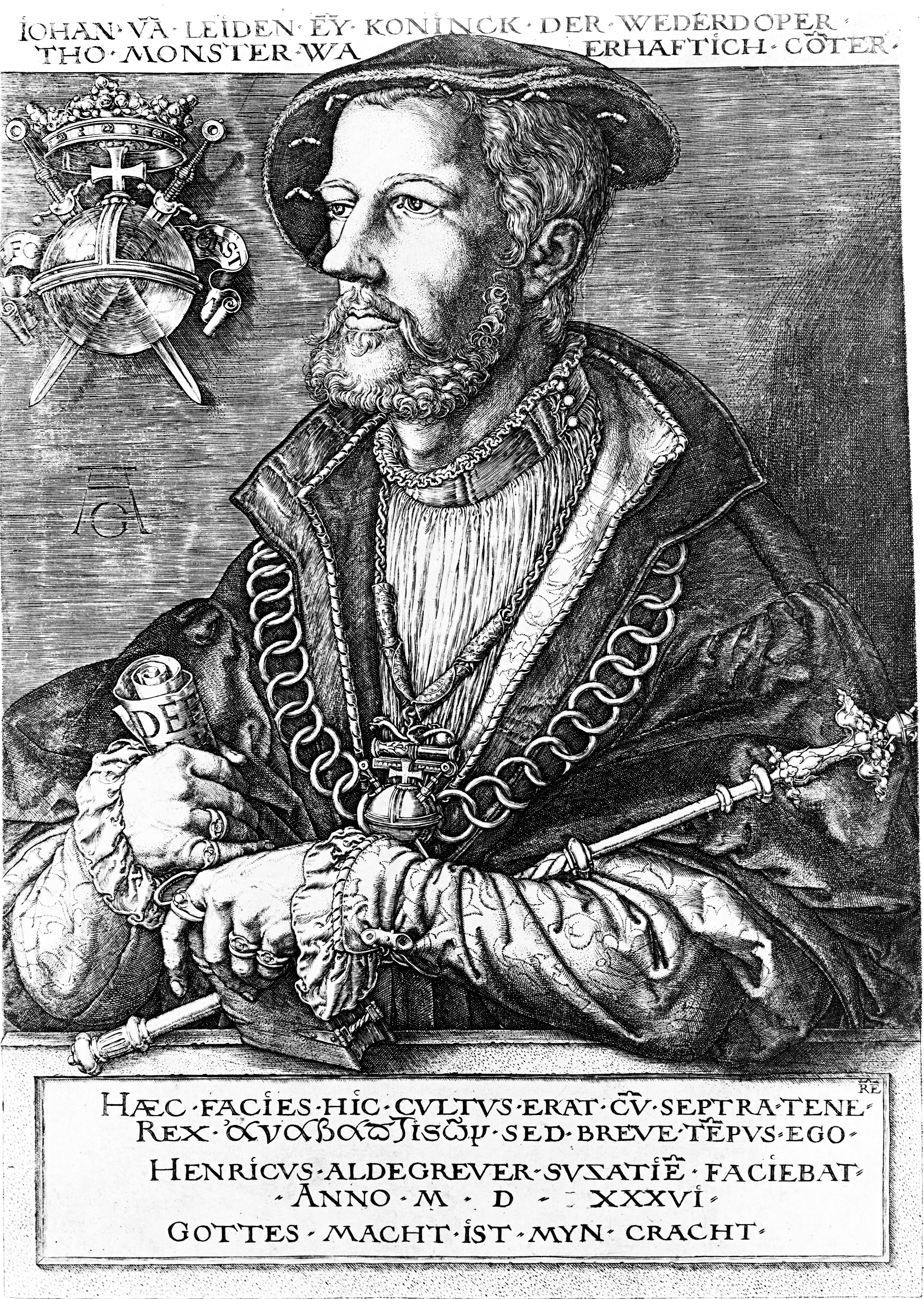 Jan van Leiden (engraving ; 31.6 x 22.6 cm)